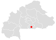 The map shows the location of the town of Pô in Burkina Faso.